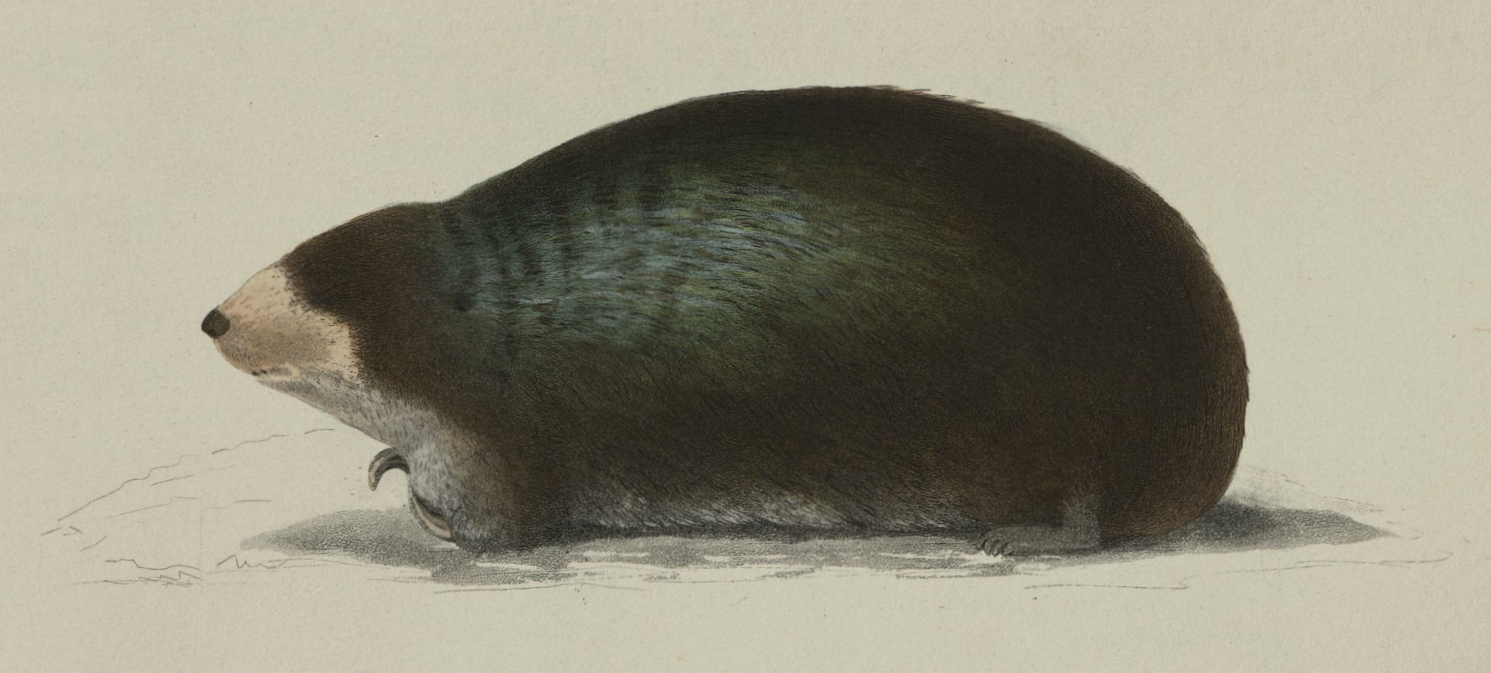 Drawing of Huetia leucorhina from the species description of Joseph Huet published 1885 in: Joseph Huet: Espèce nouvelle de Chrysochloridae de la Côte du Golfe de Guinée. Nouvelles archives du Muséum d'histoire naturelle 8, 1885, pp. 1–15 (pl. 1; not avaiable in the biodiversitylibrary online but printed in the original volume)